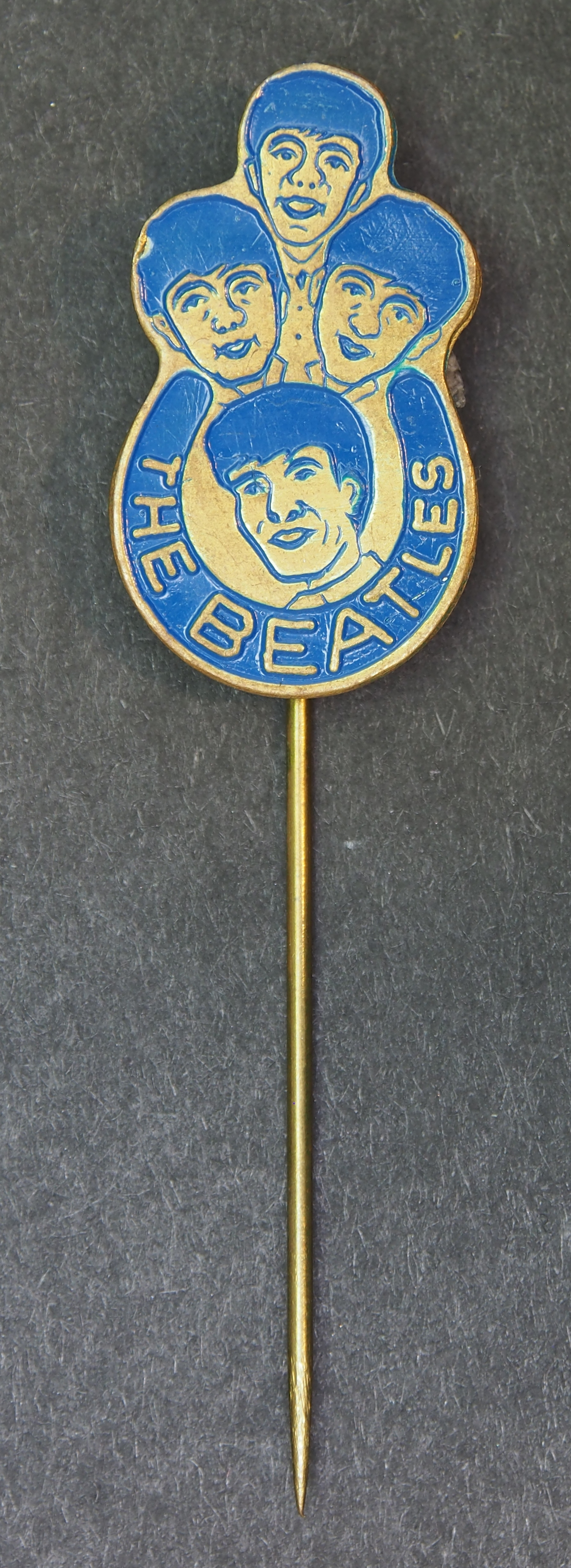 Reclame speldje van een oud Nederlands product. Advertising pin of an old (Dutch) product or brand.